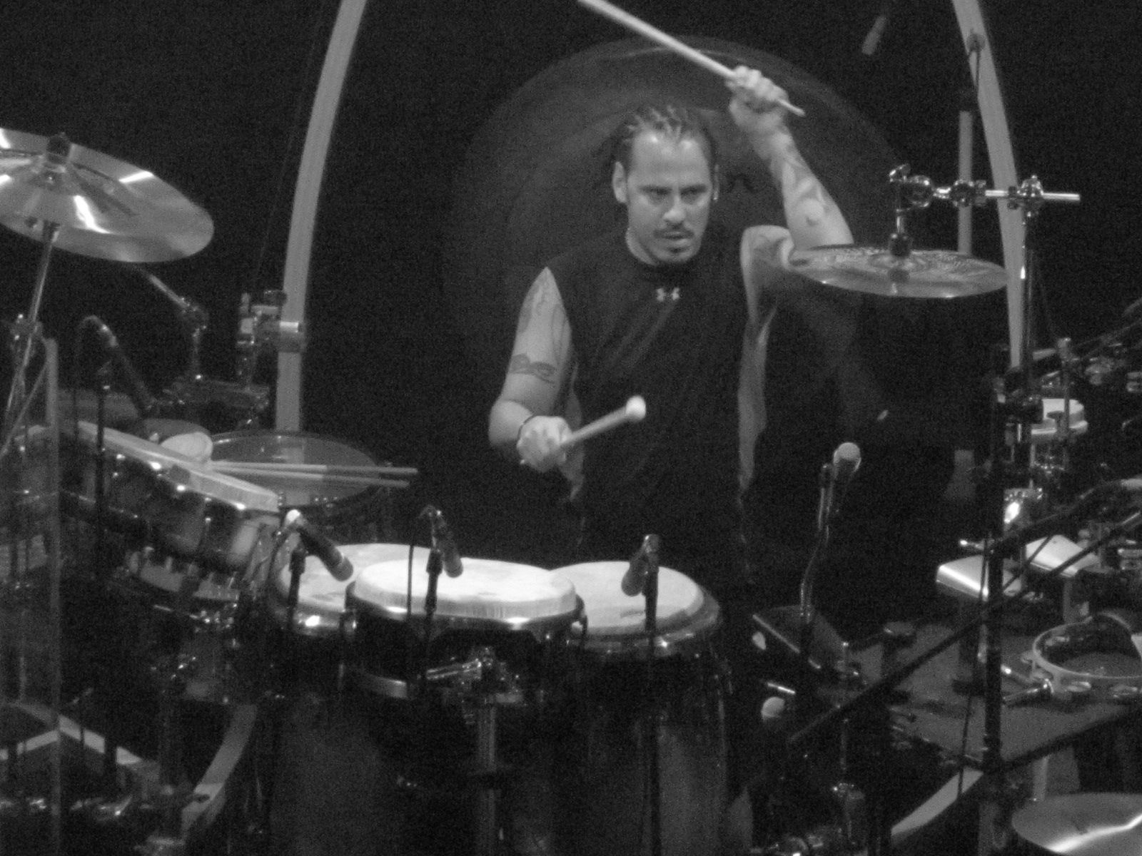 Marc Quiñones, drummer of the Allman Brothers Band, in 2011.